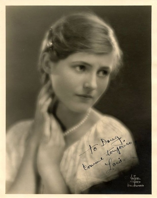 Portrait of American actress Lois Moran (1909–1990) by American photographer Albert Witzel (1879-1929).